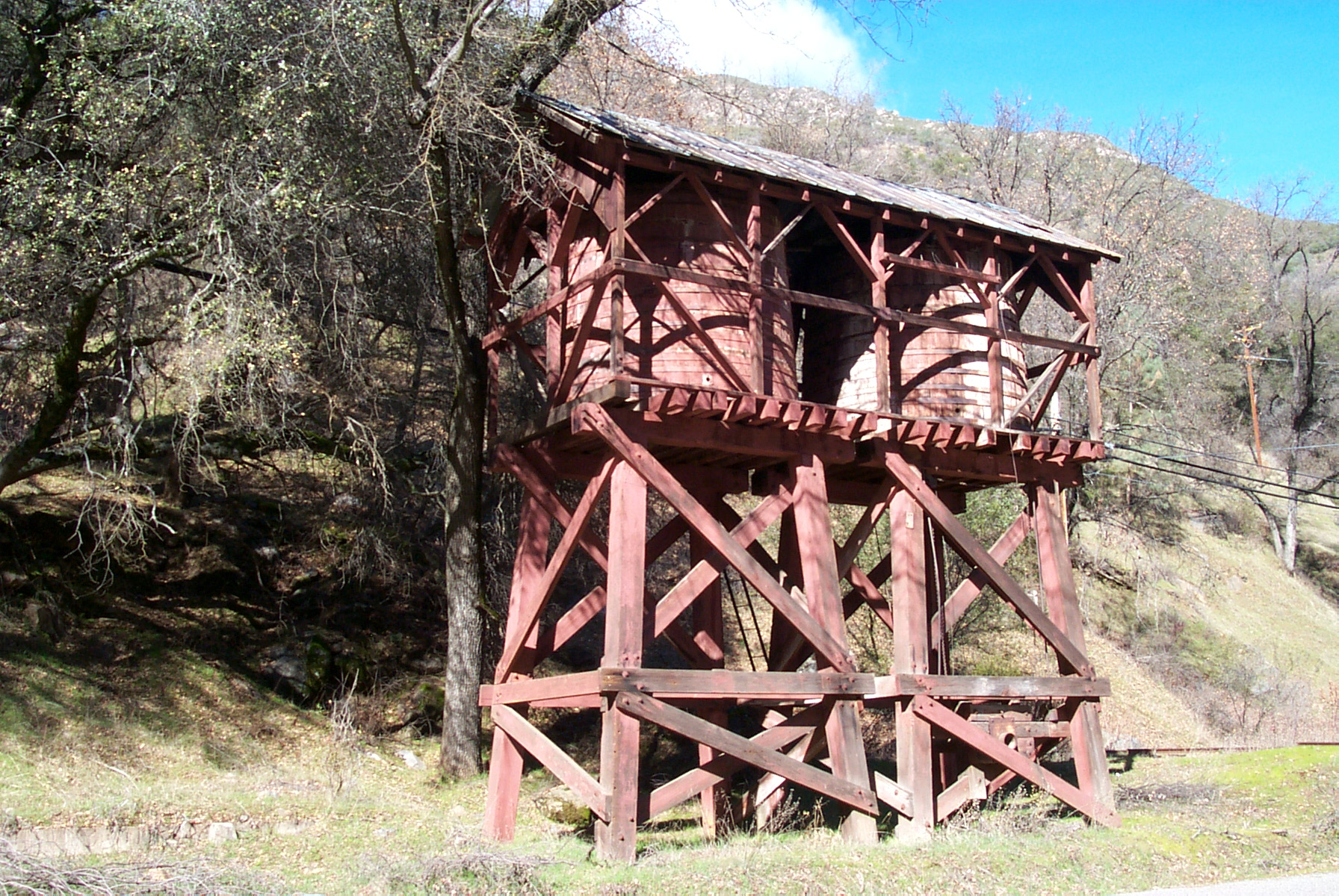 Bagby Watertower at railroad siding — in El Portal, western Yosemite National Park, California. Built by the Yosemite Valley Railroad c. 1907.